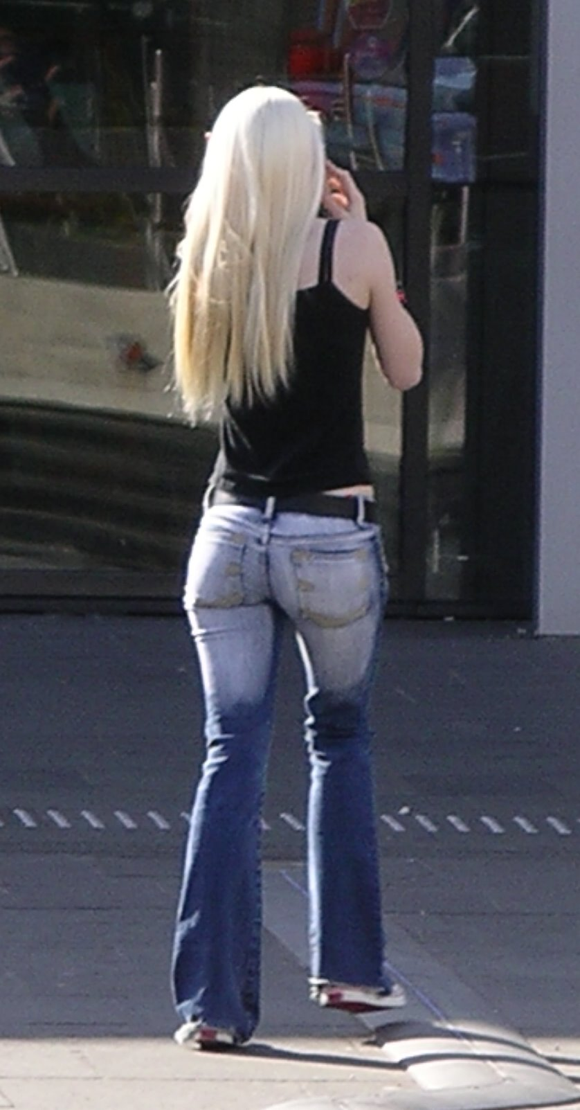 Photo of a lady in jeans in England in summer 2007.